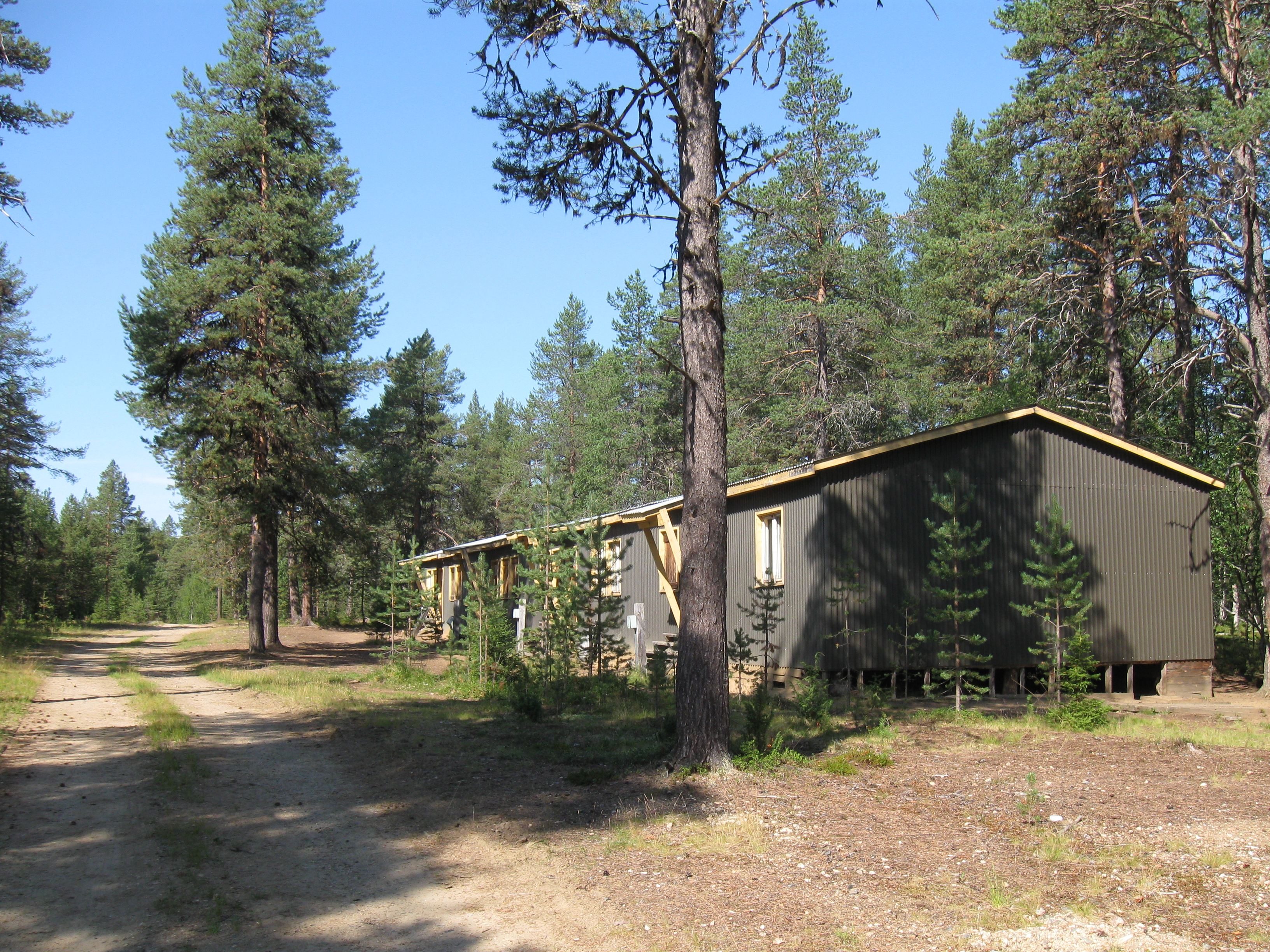 Wooden barracks built in the seventies in Sokli, Savukoski, Finland, related to investigation and experimentation of the Sokli carbonatite complex, in July 2013.